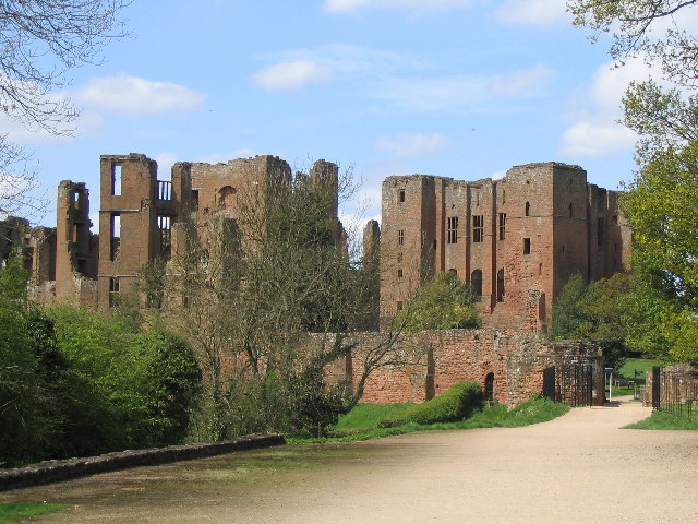 Kenilworth Castle. On approach from the Car Park. Once the home of the favourite of Elizabeth I, Robert Dudley (Earl of Leicester). He extensively renovated it for her visit in 1575AD.